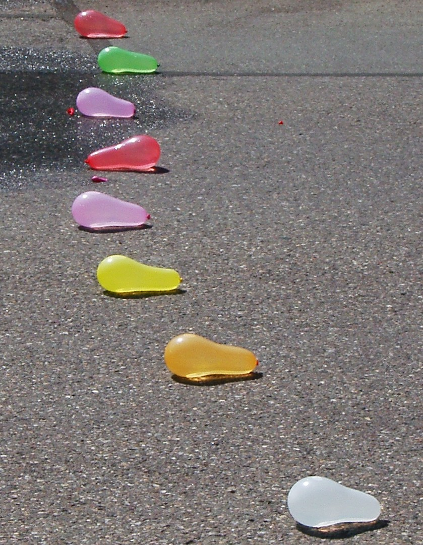 Water Bombs filled with water